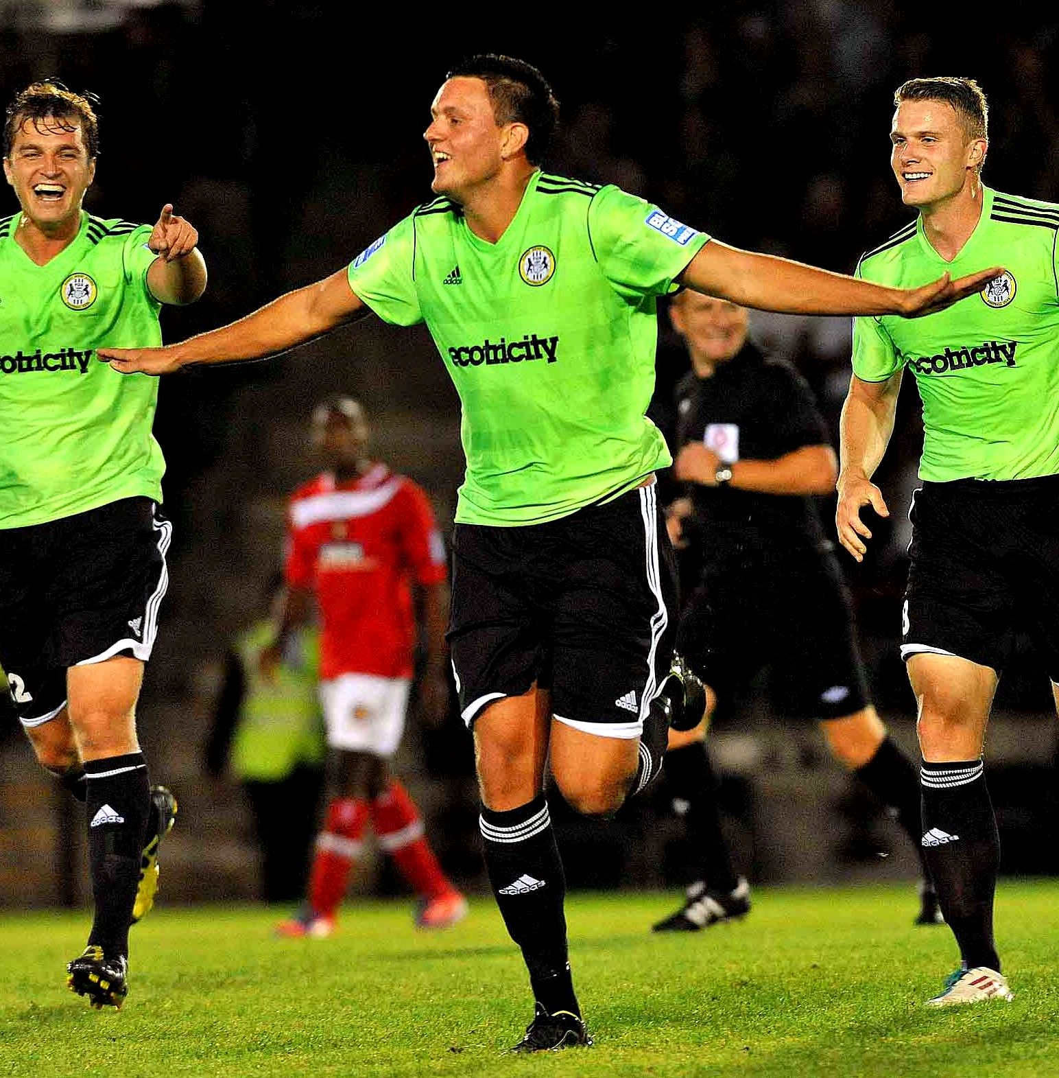 Ben Wright celebrate scoring against Ebbsfleet, September 2012.